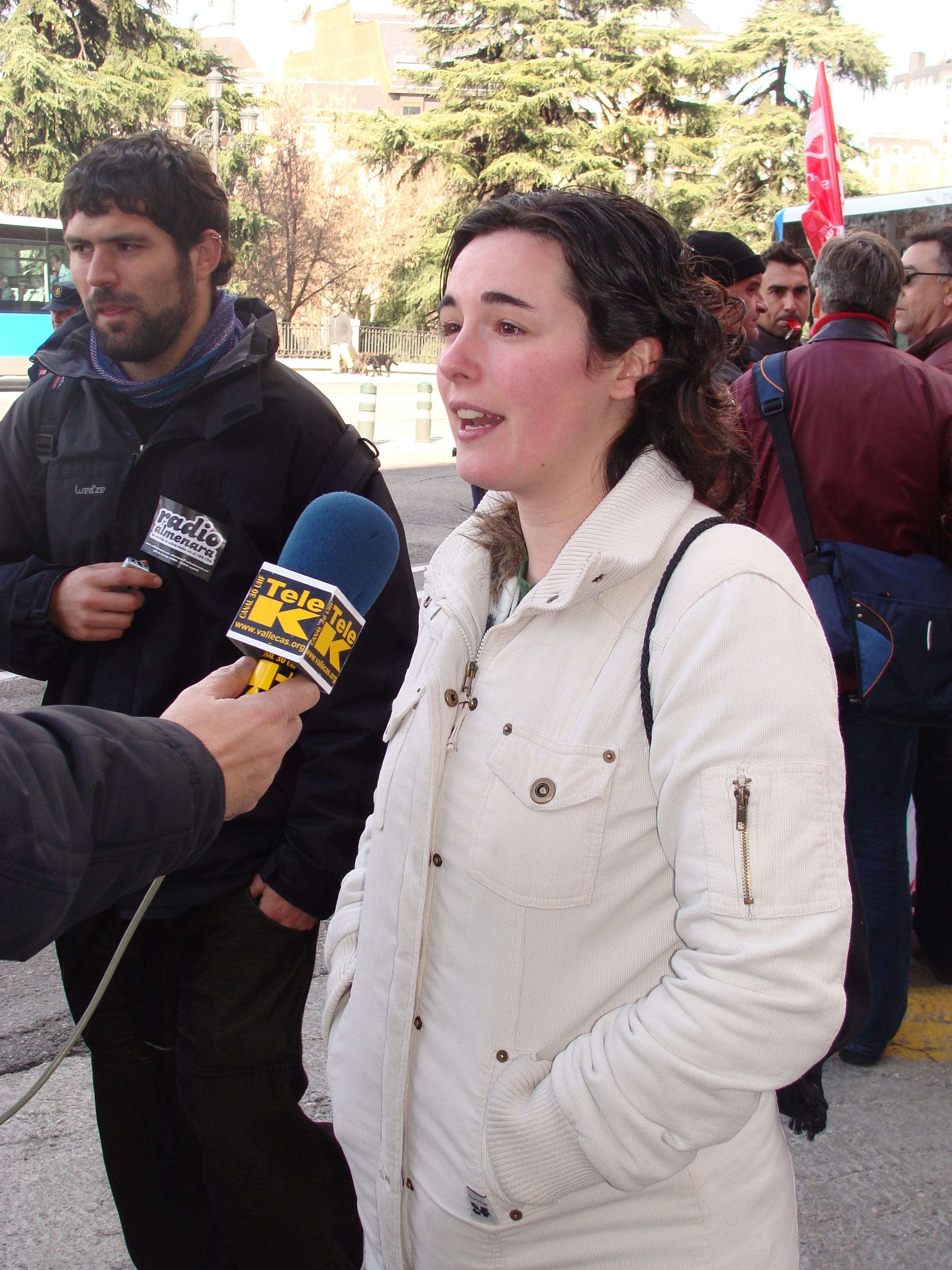 Miriam Meda (Radio Ritmo), interviewed in Tele K (Madrid, Spain)